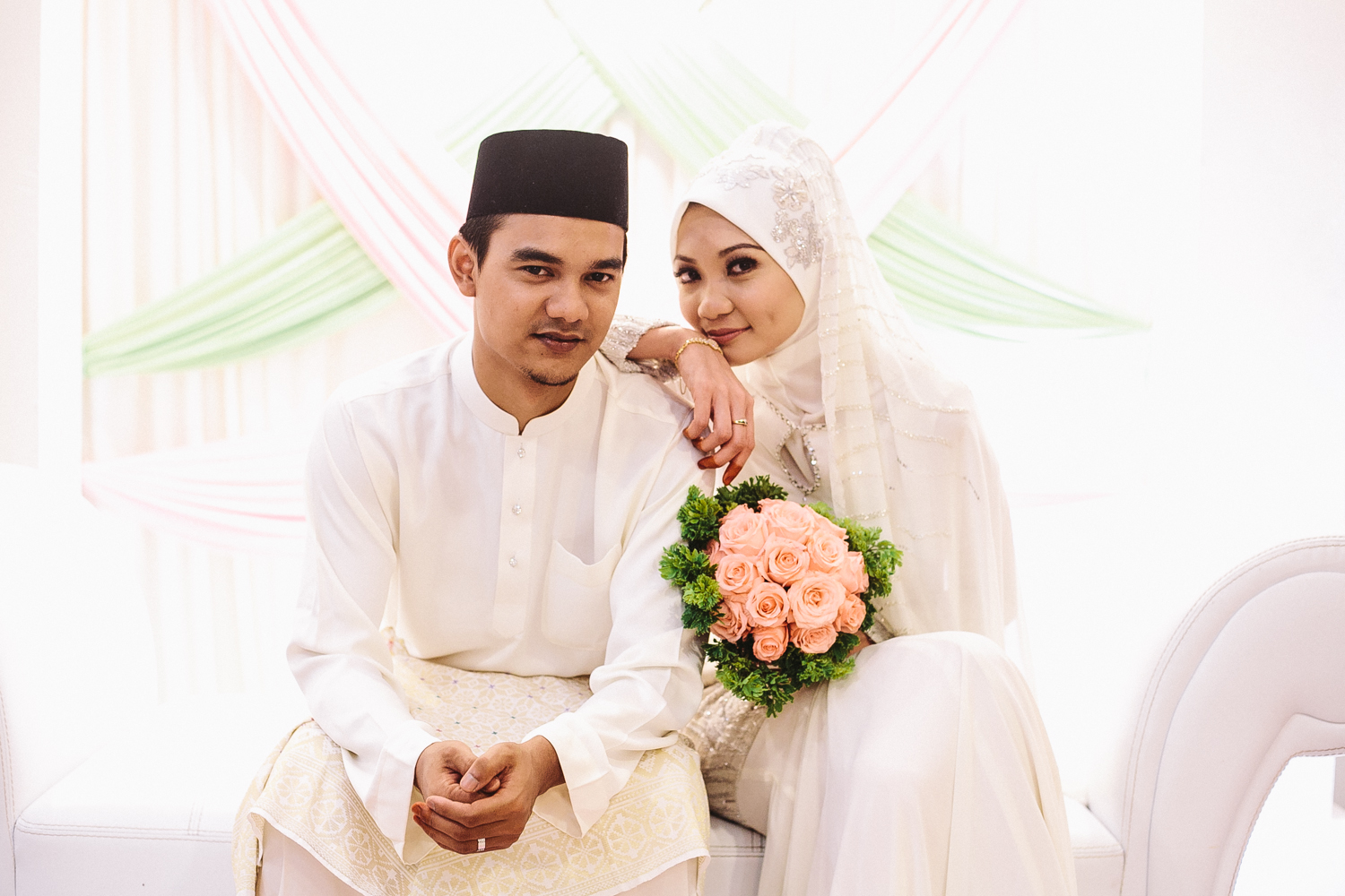 Malay couple during the bersanding ceremony.